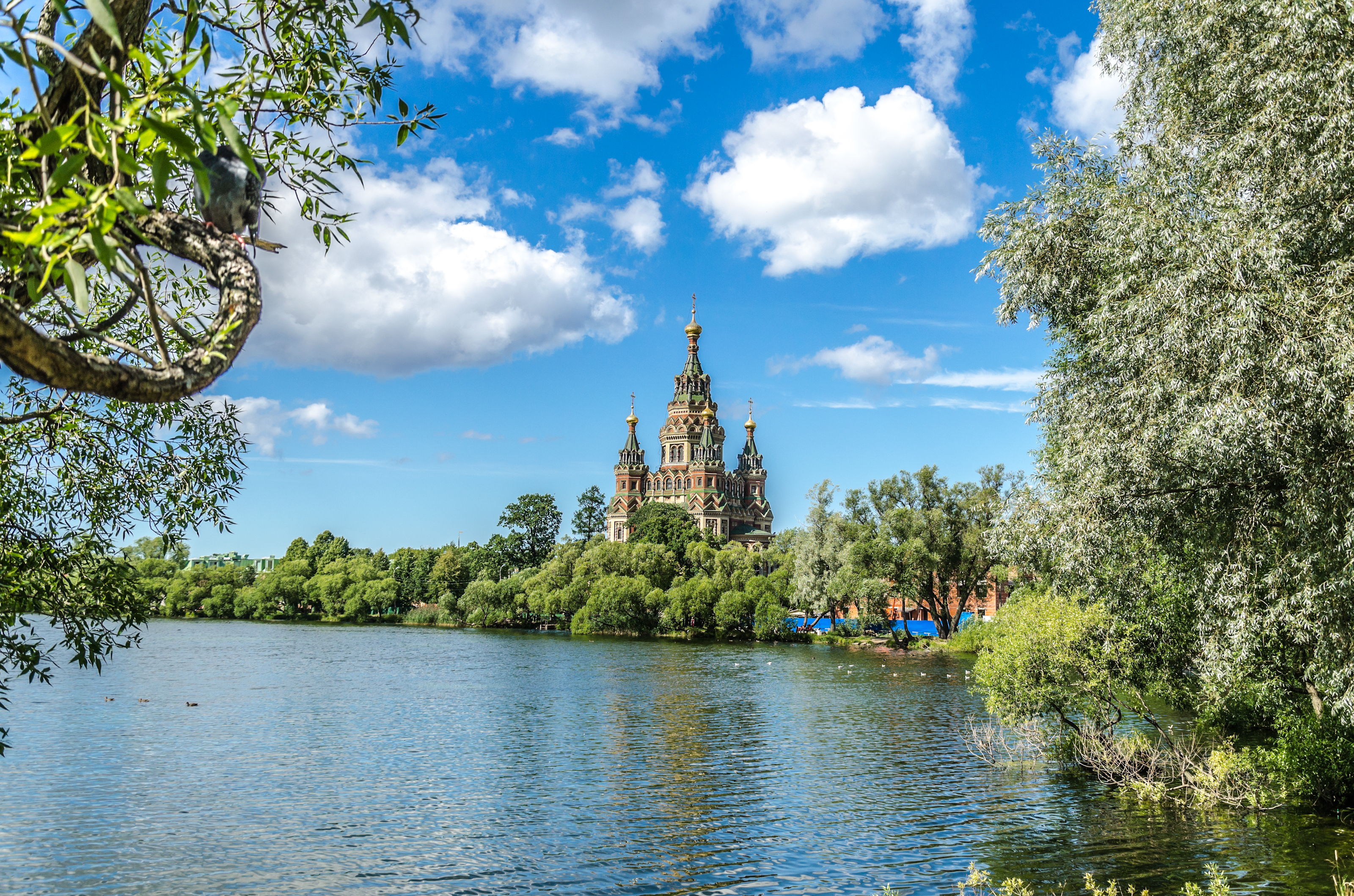 View to Saints Peter and Paul Cathedral in Peterhof